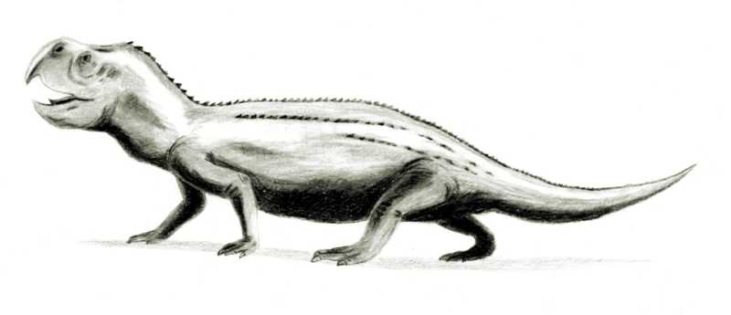 Hyperodapedon huxleyi (formerly paradapedon), pencil drawing Author:User:ArthurWeasley